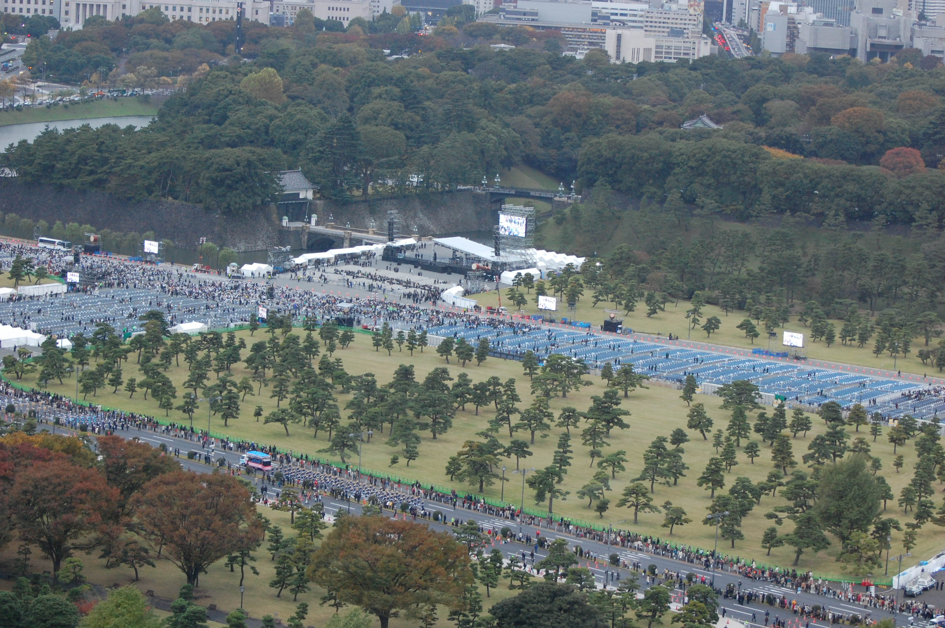 Photos of setup including stage, monitors and seating in the Imperial Palace Plaza park during a celebration of the 20th anniversary of Emperor Akihito's ascension to the throne. The Imperial Palace gardens are in the backround.